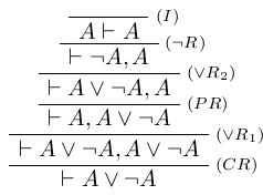 Proof of the excluded middle law in sequent calculus